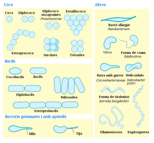 Basic morphological diferences between bacteria. the must often found forms and they asociations. Tags in Catalan.